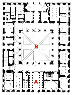 Palazzo Farnese (Rome); floor plan; ground floor